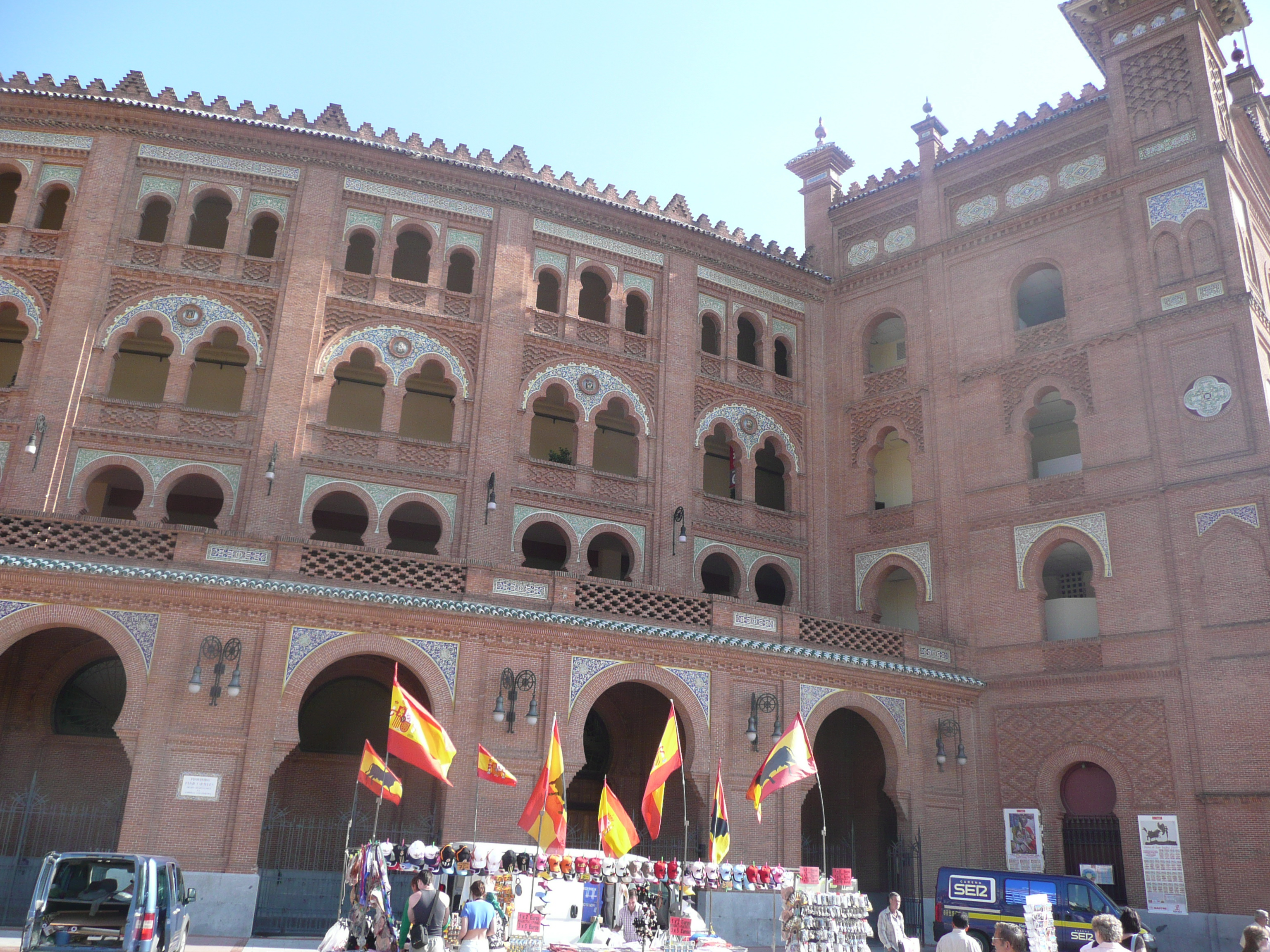 Las Ventas Madrid